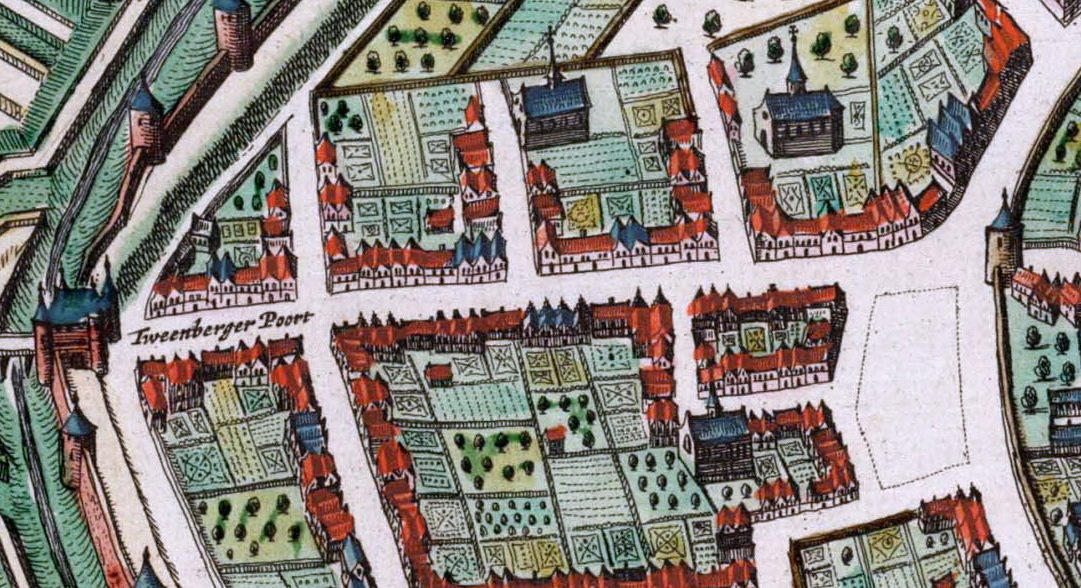 Maastricht, the Netherlands. Detail of a map of Maastricht from the Atlas van Loon (Blaeu, 1652) showing the northwestern section of the 17th-century fortifications between Brusselsepoort and Lindenkruispoort.